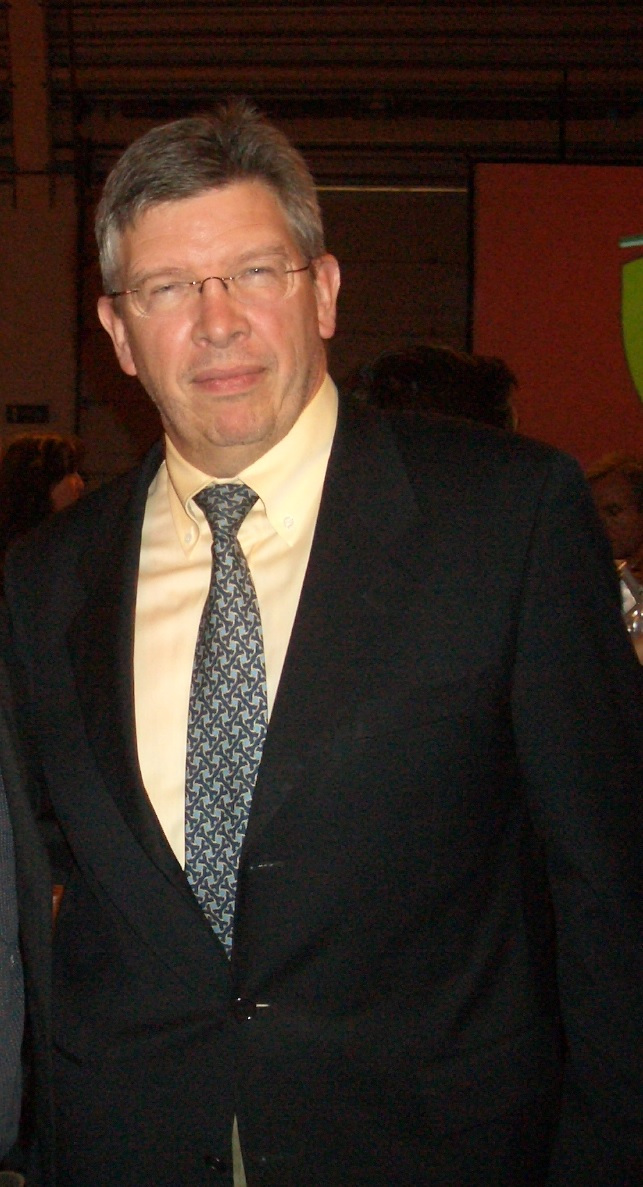 Ross Brawn at a Ferrari Christmas party.